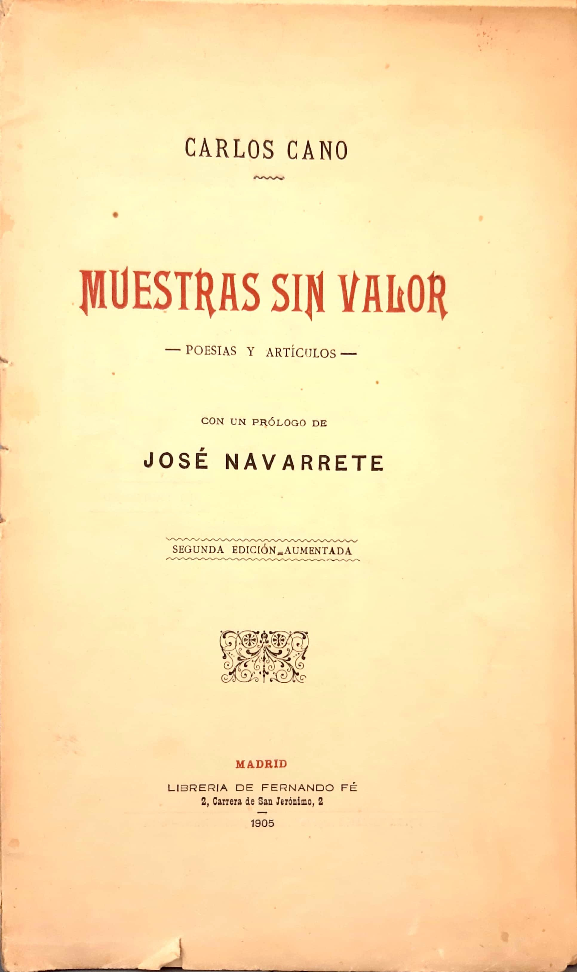 Autor: Cano, Carlos (1846-1922) Título: Muestras sin valor : poesías y artículos / Carlos Cano ; con un prólogo de José Navarrete. Edición: 2ª ed. aum. Publicación: Madrid : Librería de Fernando Fé, 1905 (Murcia : Tip. La Verdad) Descripción física: 204, [3] p. ; 20 cm. Otros responsables: Navarrete, José (1836-1901) Lugar: España - Madrid España - Murcia